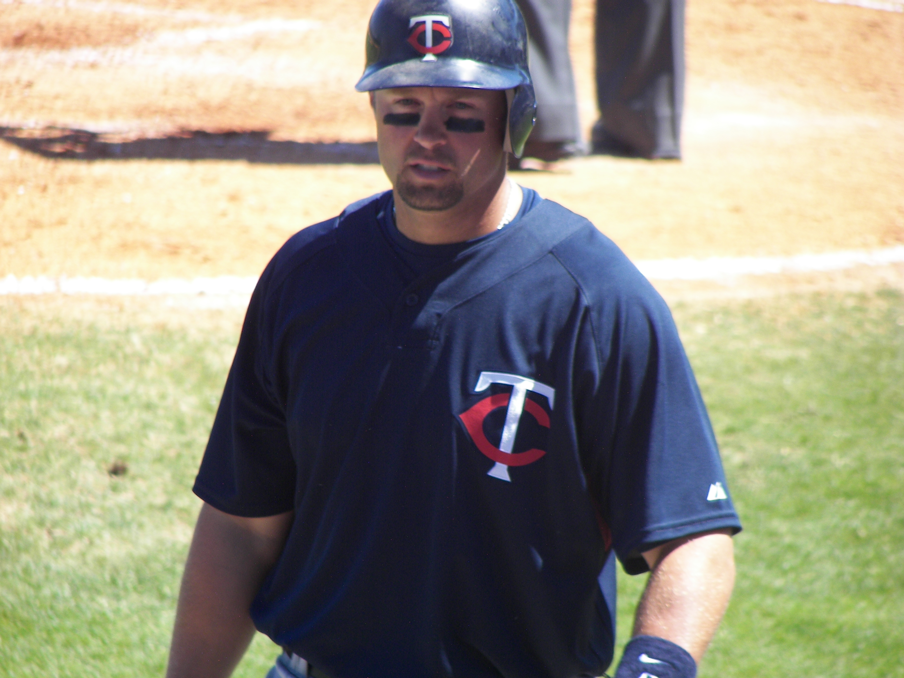 Minnesota Twins infielder Michael Cuddyer during a Twins/Pittsburgh Pirates spring training game at McKechnie Field in Bradenton, Florida.